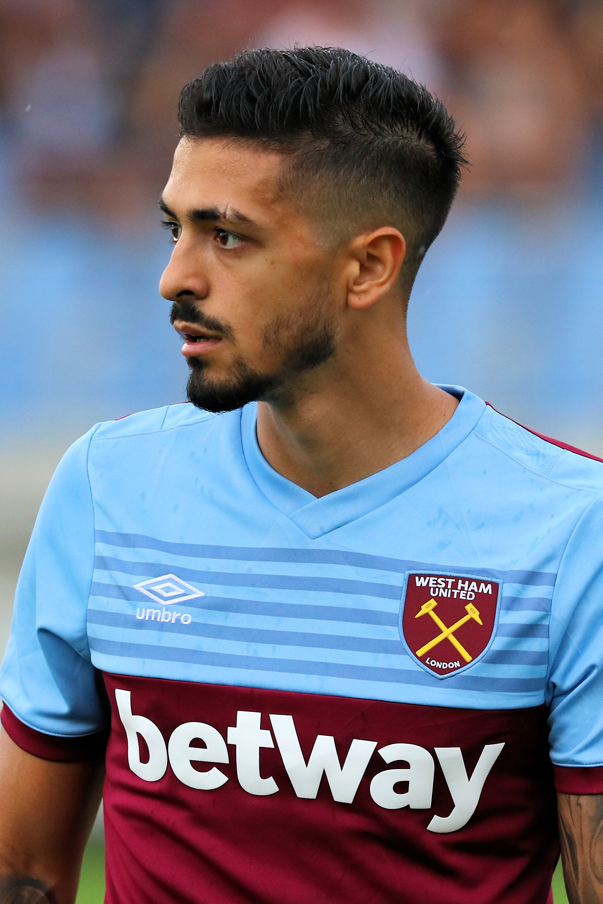 Friendly match Hertha BSC (blue-white shirts) vs. West Ham United (red-blue shirts) at 31-07-2019 3-5 (3-2) in the Sonnenseestadium in Ritzing. – The photo shows Manuel Lanzini (West Ham United).